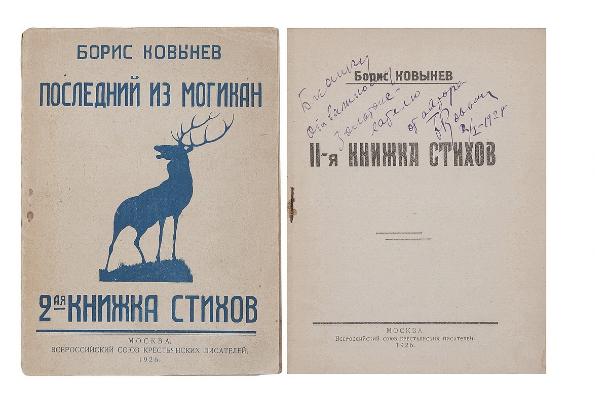 Boris Konstantinovich Kovynev. 2nd Book of Lyrics' Cover.